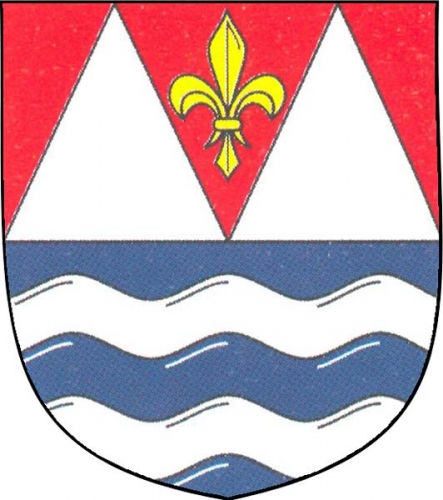 Coat of arms of Mostkovice, Prostějov District